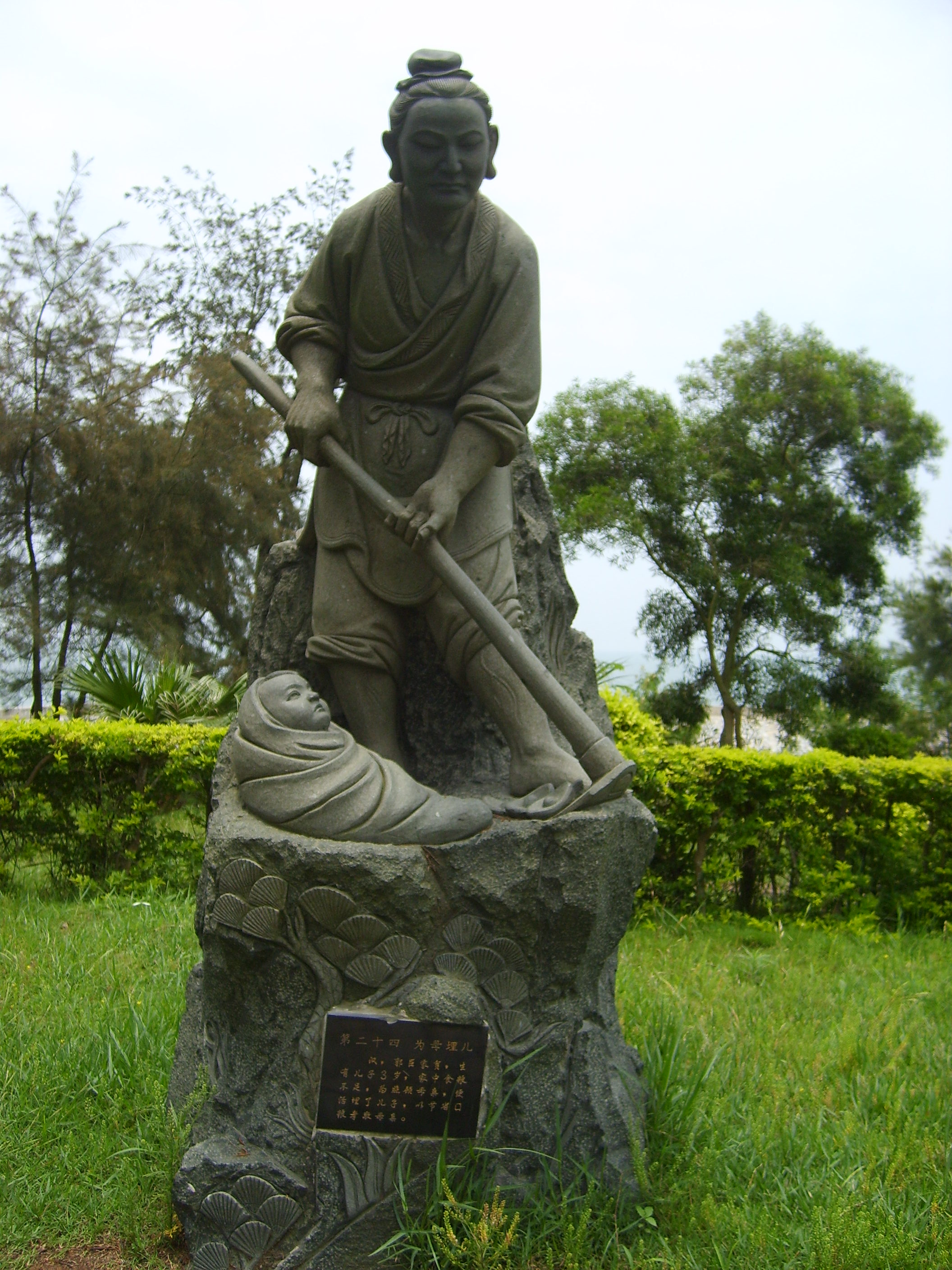 The Twenty-four Filial Exemplars - No. 24